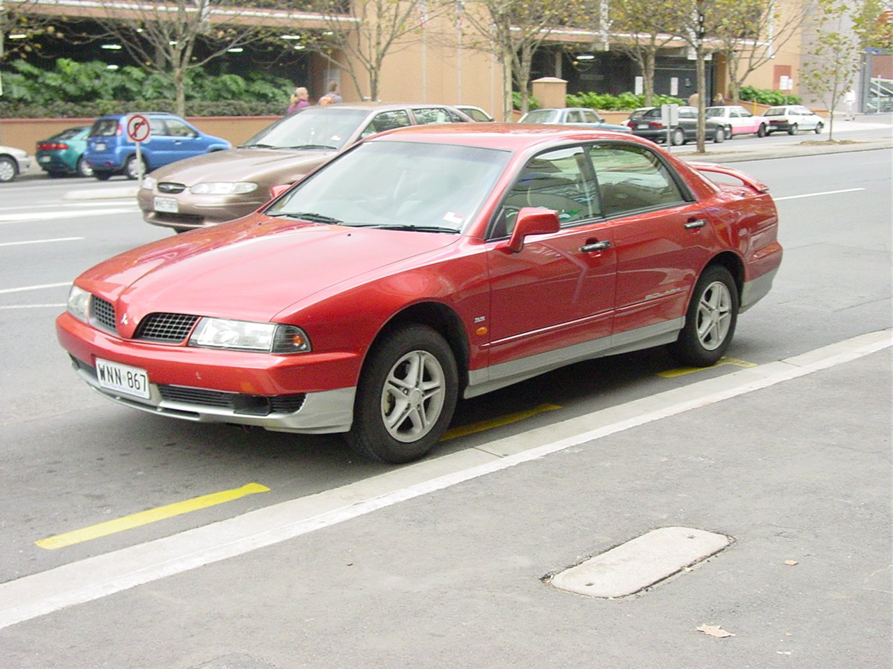 A Magna Solara, which was a limited edition model with a bunch of optional extras included as standard that seemed to appear at some point in each magna model cycle. This is a TJ model that seemed to also gain that questionable two tone colour scheme.